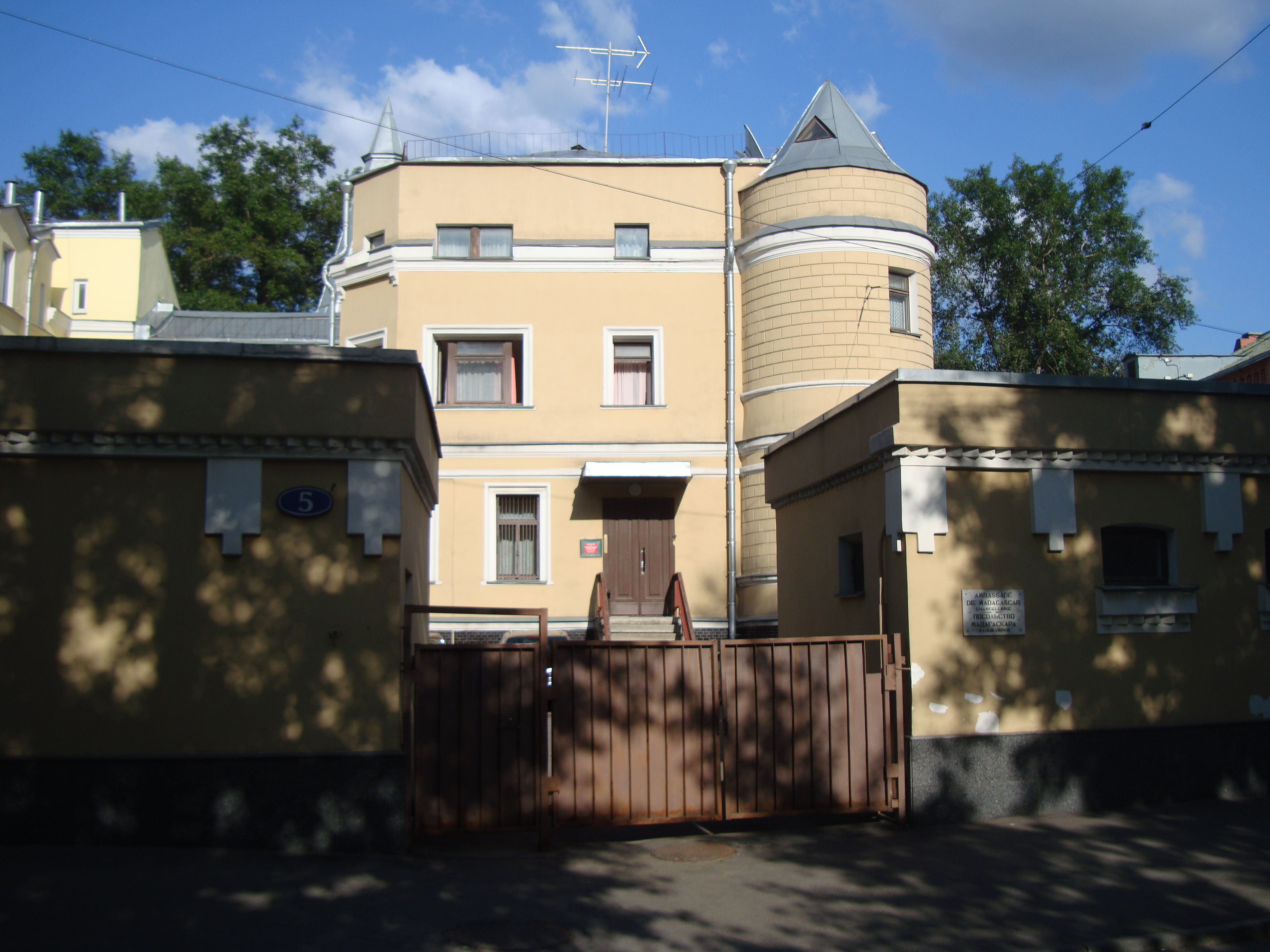 5 Kursovoy Lane, Khamovniki District, Moscow, Russia. Embassy of Madagascar.